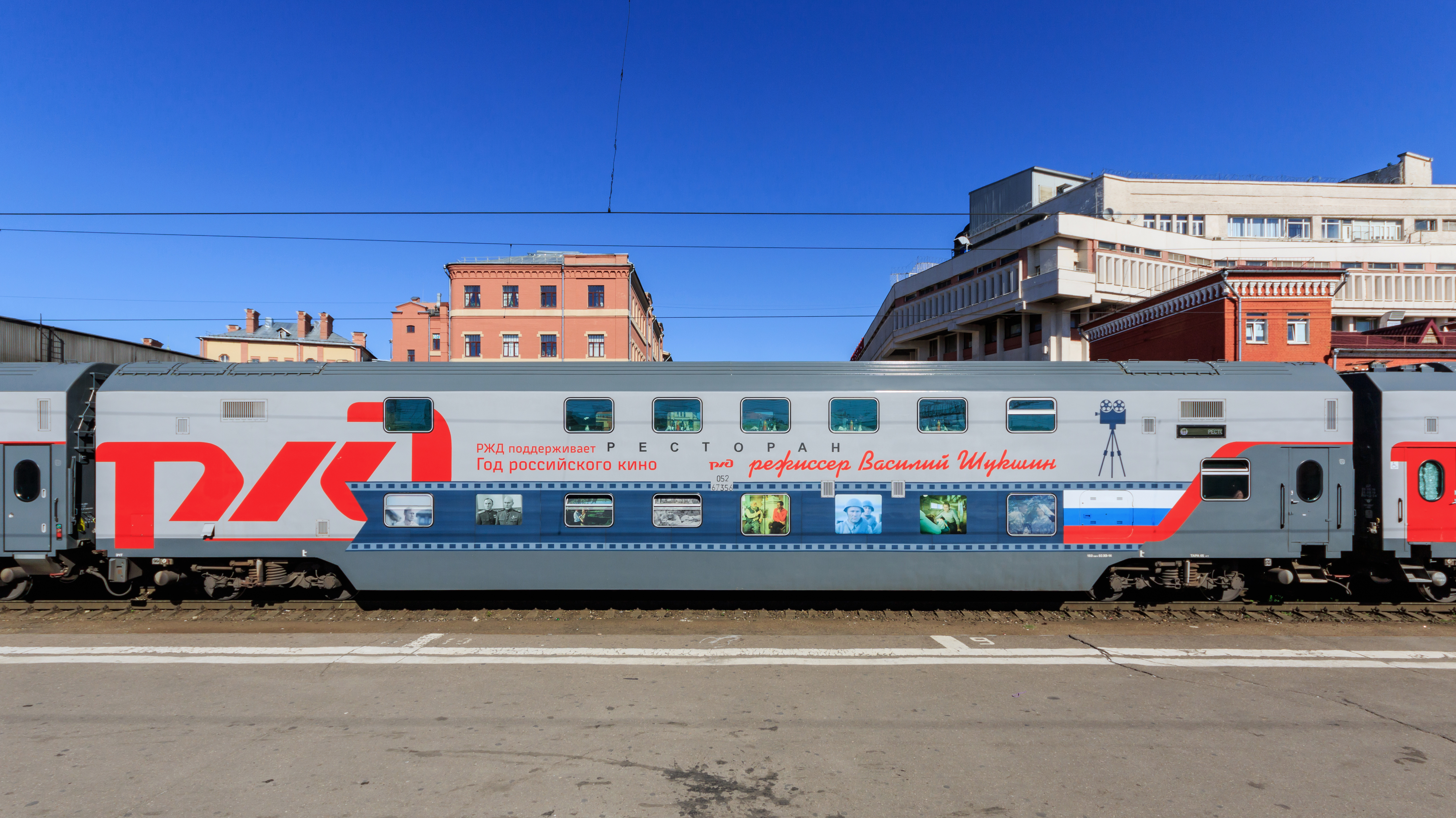 Dining car of a TverVZ double-decker train on Moscow-Adler route, taken at Kazansky Rail Terminal. Moscow, Russia.